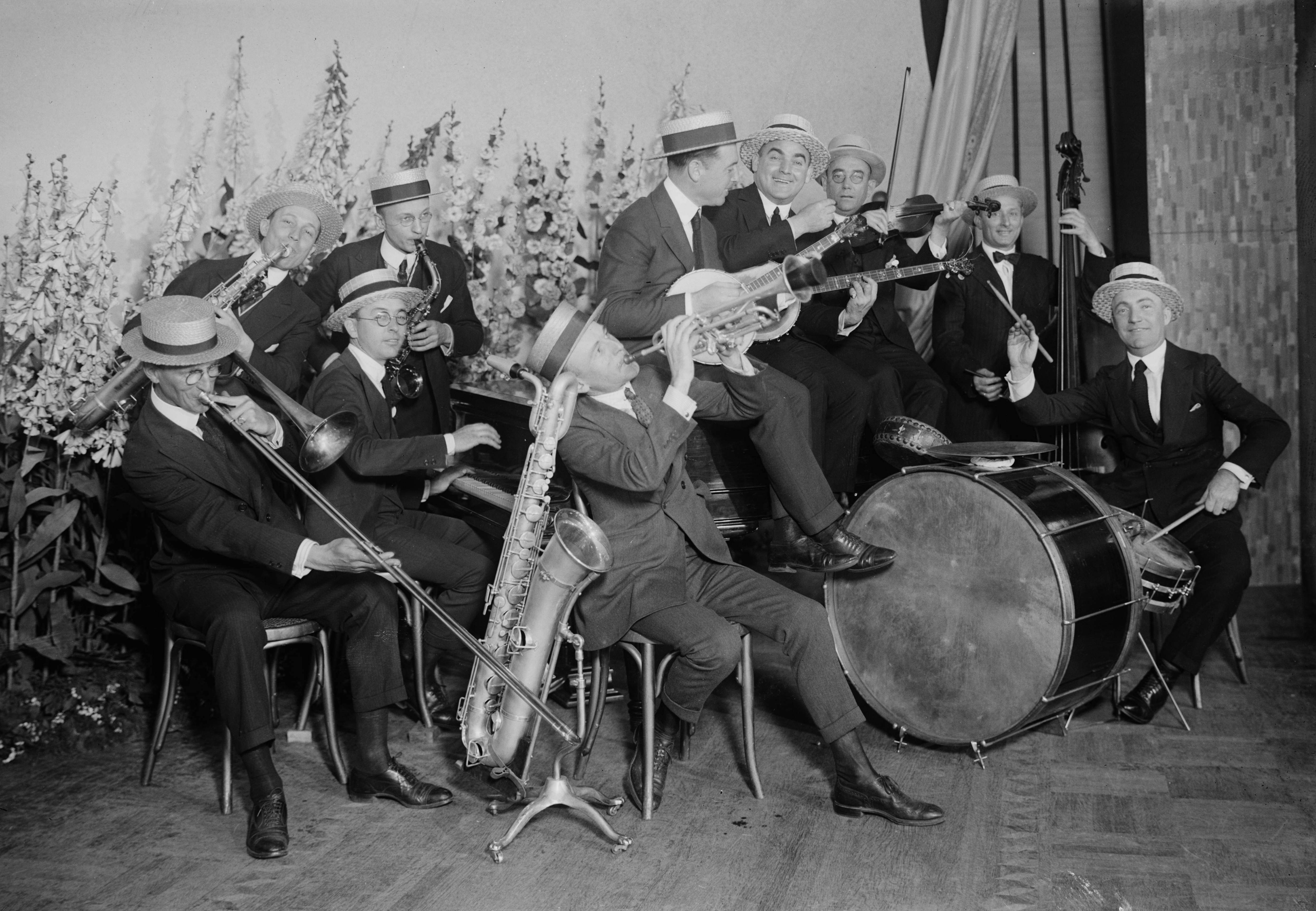 Art Hickman & His Orchestra. Bain News Service photo, probably taken on the Orchestra's trip to New York City in 1919 or 1920. Art Hickman at right on drums. Per [1] personnel at this time was "Steve Douglas, violin, Walt Roesner, trumpet, Fred Kaufmann, trombone, Clyde Doerr, alto and baritone saxes, oboe, and clarinet, Bert Ralton, soprano and tenor saxes and clarinet, Frank Ellis, piano, Vic King, tenor banjo, Ben Black, plectrum banjo, Bela Spiller, string bass, and Art Hickman, drums, piano, and slide whistle."